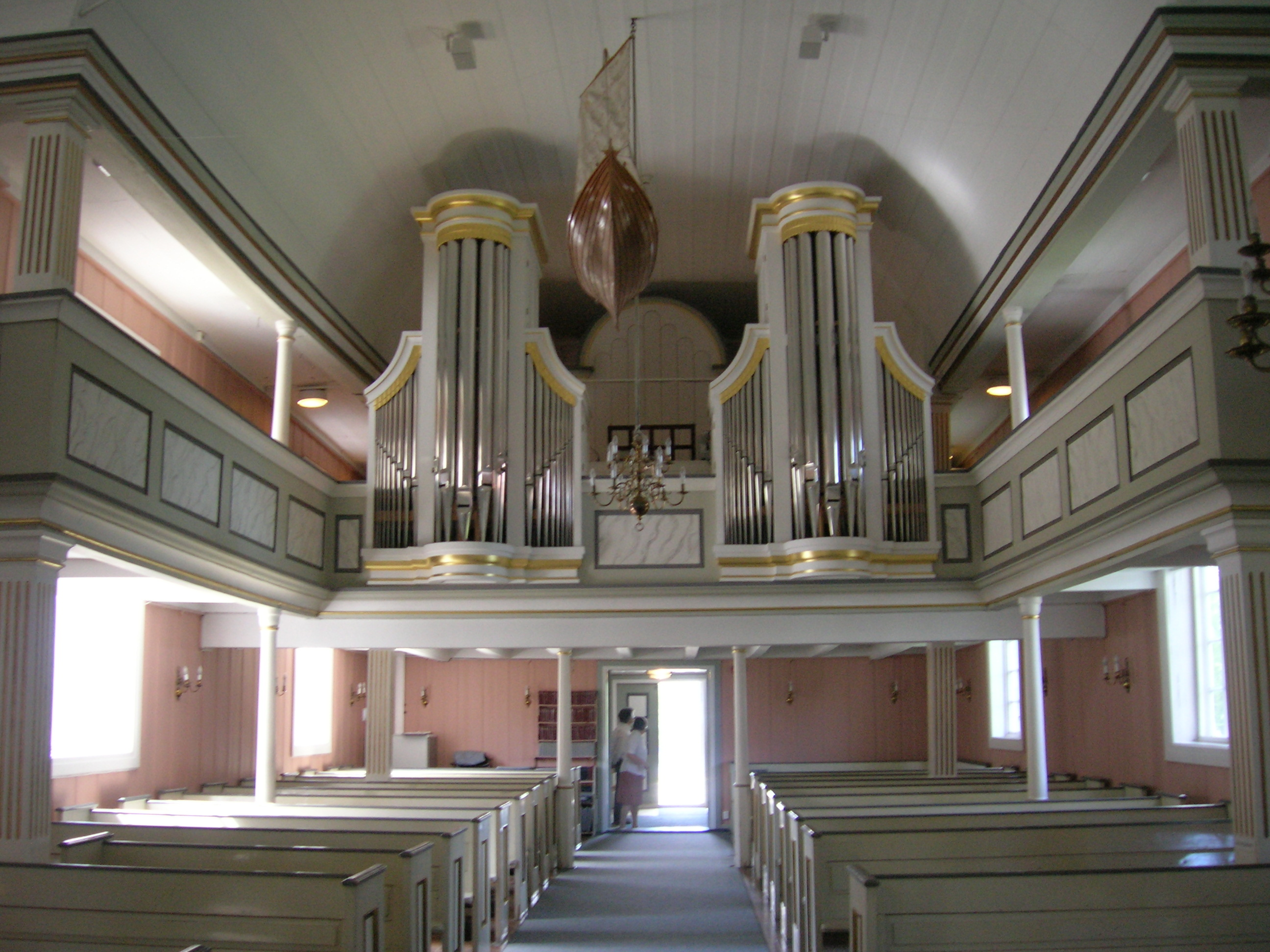 Mo church in Mo i Rana, municipality, Nordland, Norway. Interior of the church. Photo June 10, 2007 with a Nikon Coolpix 5600 5,1 Megapixel camera.